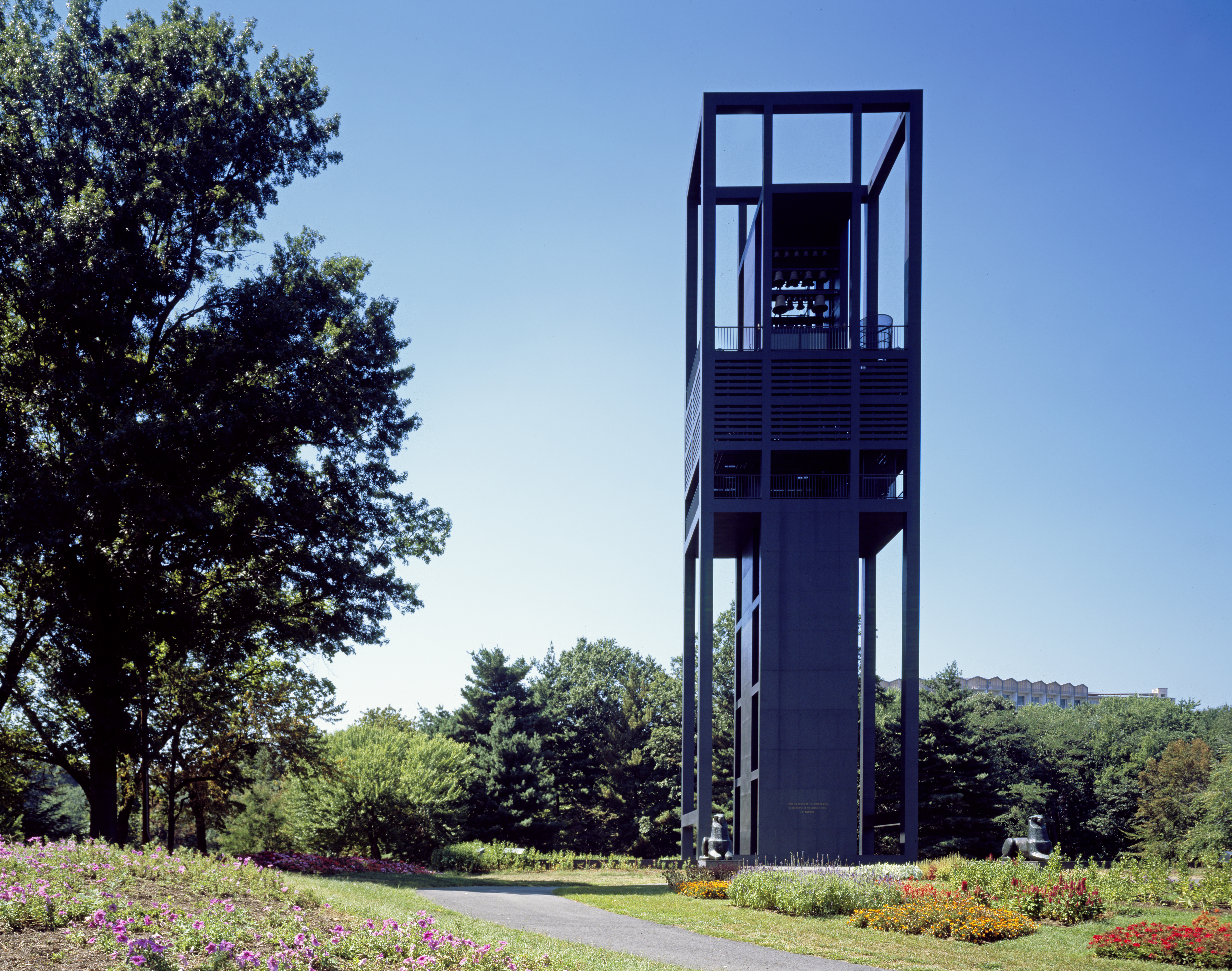 Looking west at the Netherlands Carillon, located on the George Washington Memorial Parkway north of Arlington National Cemetery, Arlington County, Virginia, in the United States. Image taken between 1980 and 2006.